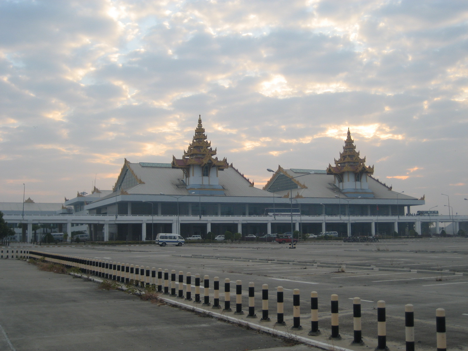 Mandalay International Airport, as viewed from the carpark.